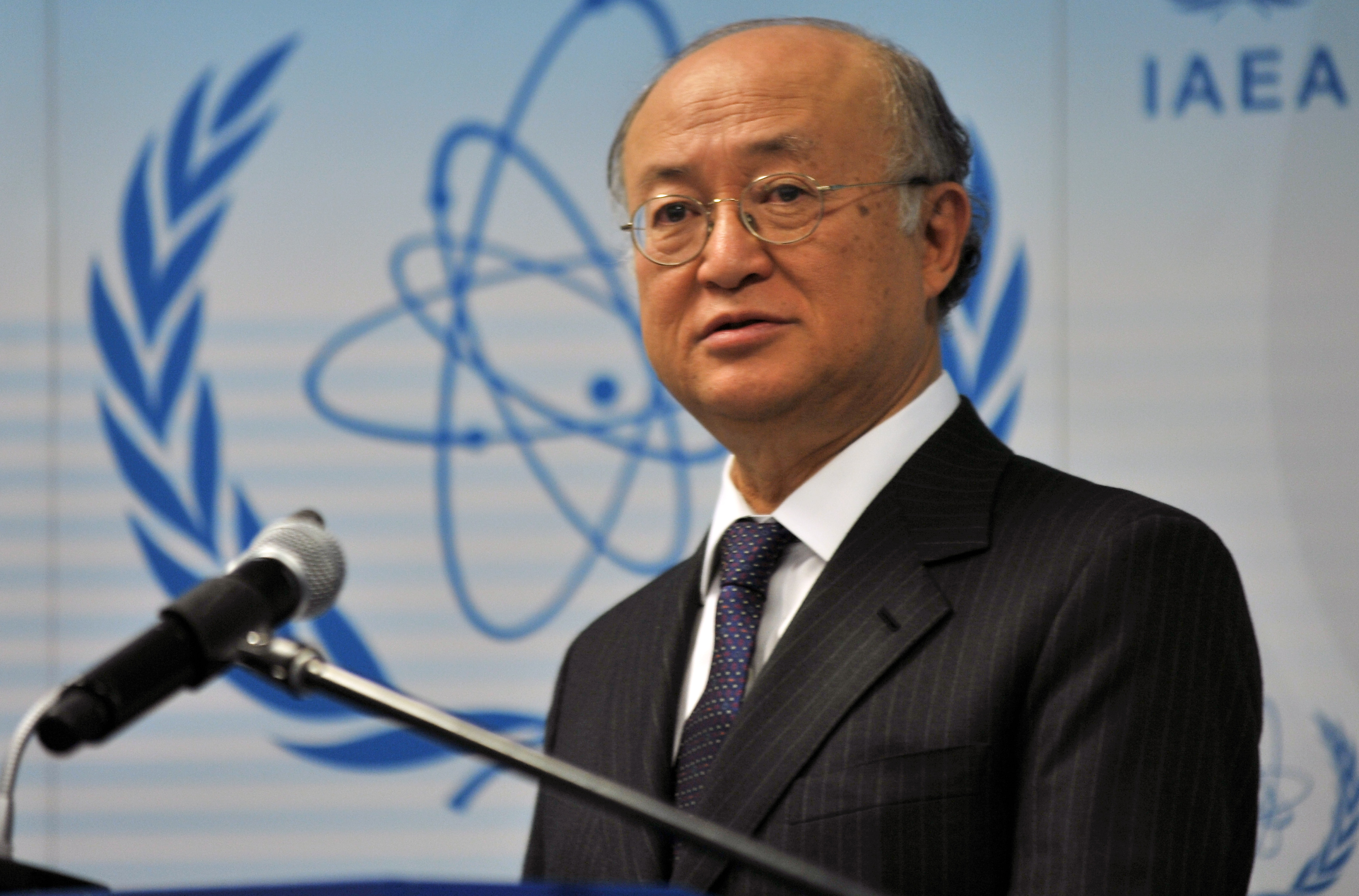 Day 1: IAEA Offers Briefing for Journalists IAEA Director General Yukiya Amano briefs the press on Nuclear Safety in Earthquake-stricken Japan followed by comments from IAEA Nuclear Safety and Security Officials, Denis Flory, Deputy Director General, James Lyon, Director, Division of Nuclear Installation Safety and Elena Buglova, Acting Head, Incident and Emergency Centre. IAEA, Vienna, Austria, 14 March 2011 Copyright: IAEA Imagebank Photo Credit: Dean Calma/IAEA